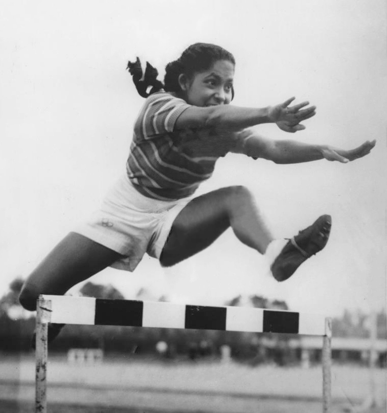 1952 Press Photo Nilma Ghosh India's 85 meter hurdler at Helsinki Olympics